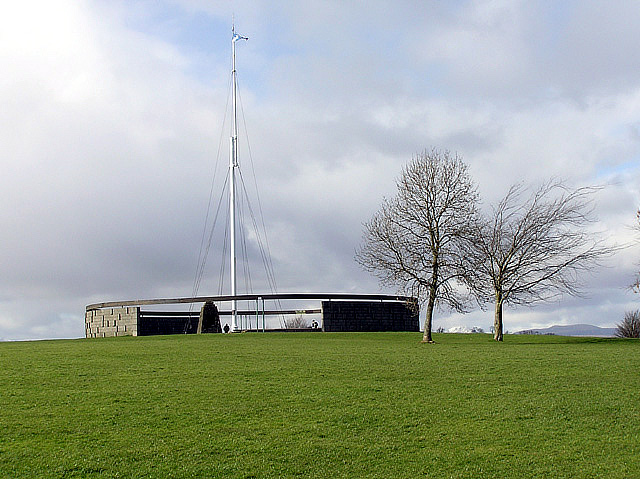 The Bannockburn Monument near Bannockburn in Scotland. The monument commemorates the Battle of Bannockburn of 1314. The monument, which consists of two hemicircular concrete walls surrounding a flagpost, symbolises the camps of the two antagonists on the night before the battle. A mounted statue of Scottish king Robert the Bruce stands nearby.